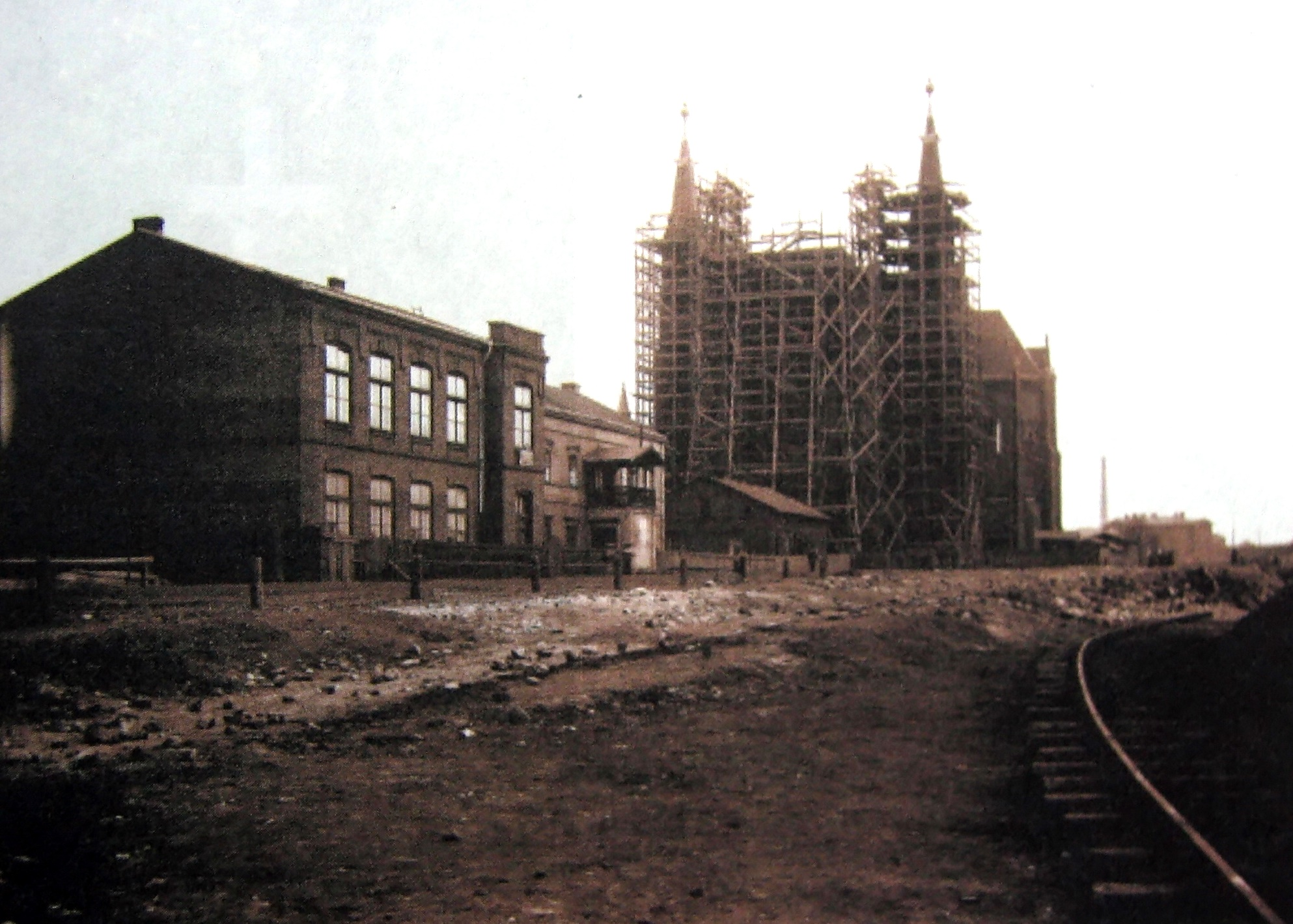 Old school and church in Dąbrowa Górnicza,1900